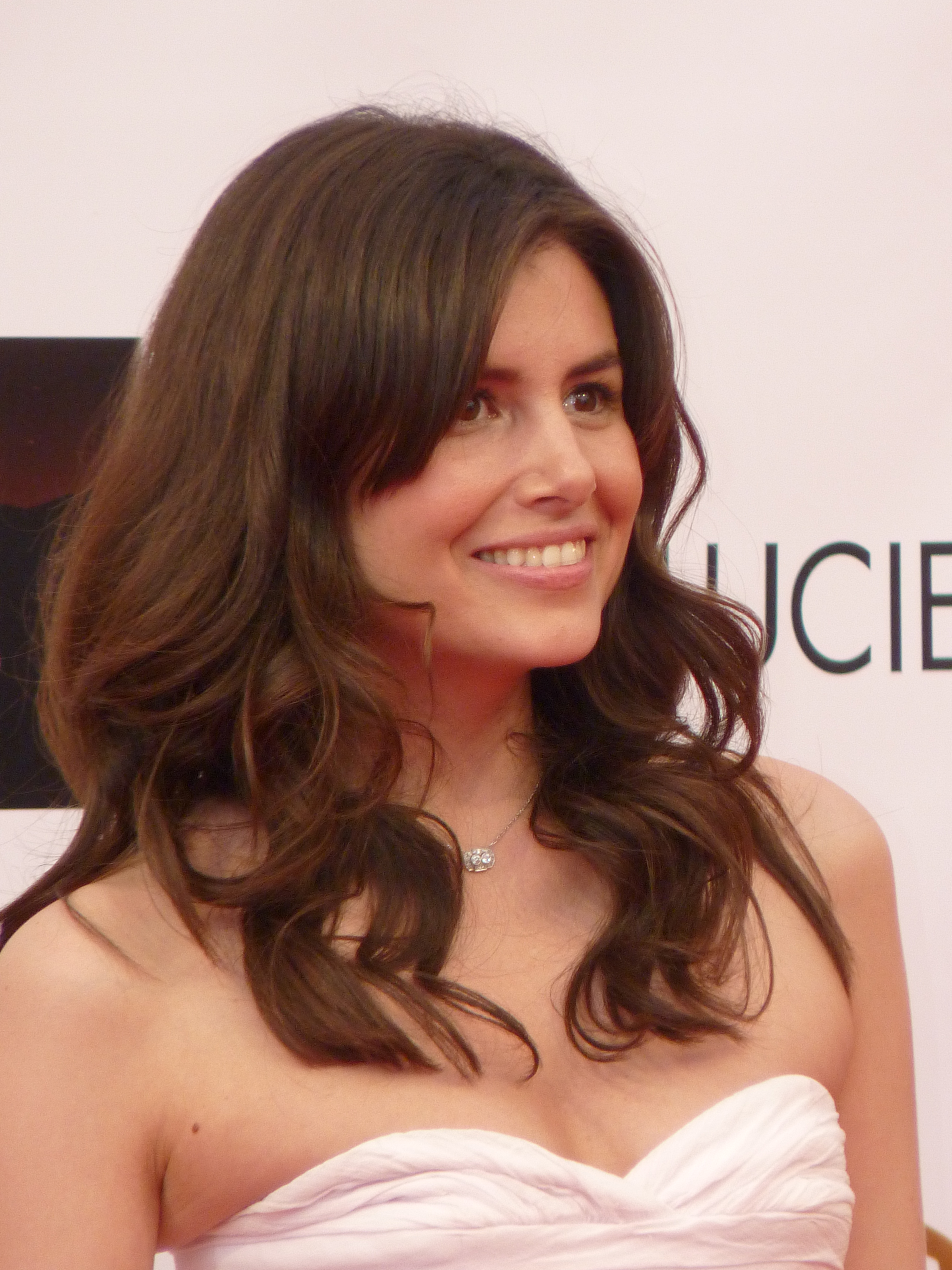 Louise Monot at the 2012 Monte-Carlo Television Festival.